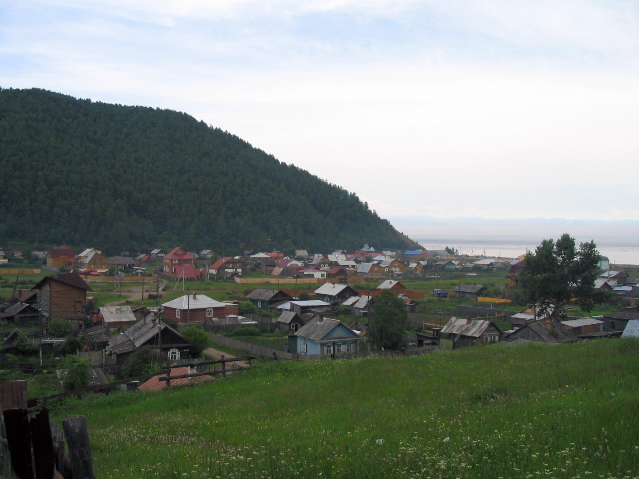 Krestovka Valley in Listvyanka, Russia on Lake Baikal. Taken by me 7/06 released into public domain